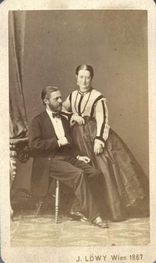 Austrian painterAdolf Obermüllner by Josef Löwy, 1867